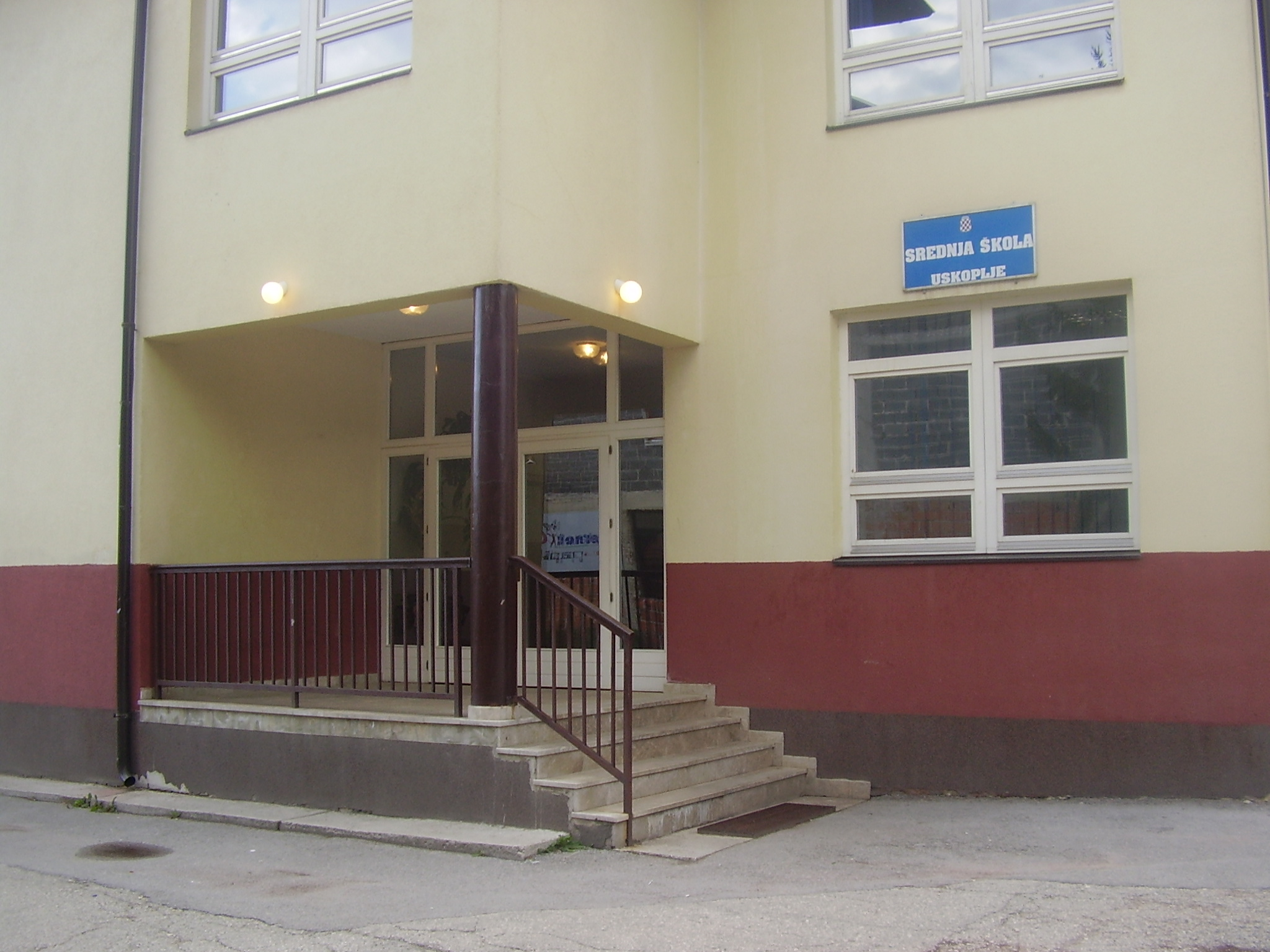 Secondary school Uskoplje, Bosnia and Herzegovina